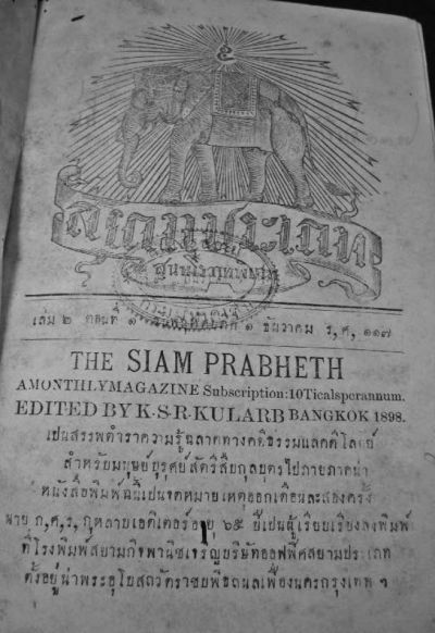 The old real document of the time Mae Nak Phra Khanong was sighted.